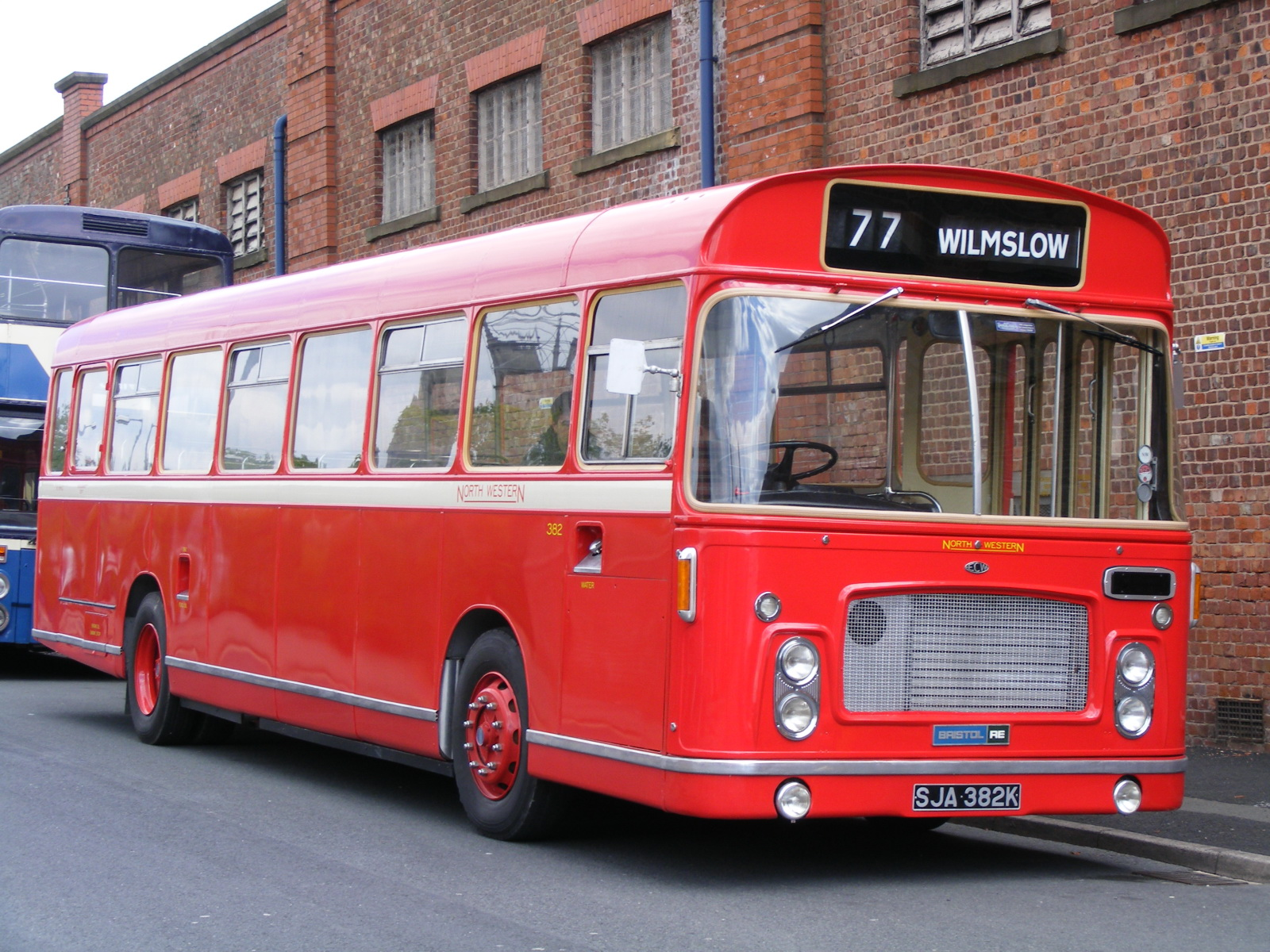 North Western ECW-bodied Bristol RE 382 SJA382K seen at the Museum of Transport in Manchester